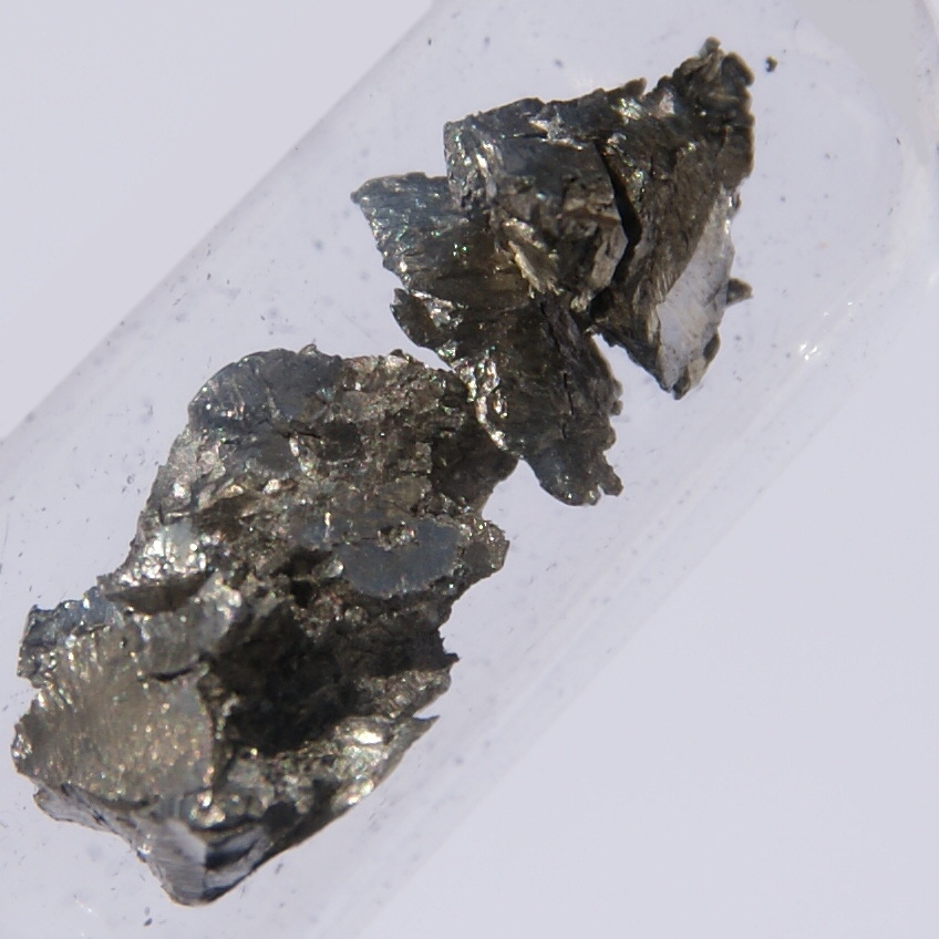 1.5 grams praseodymium under argon, 0.5 cm big pieces.